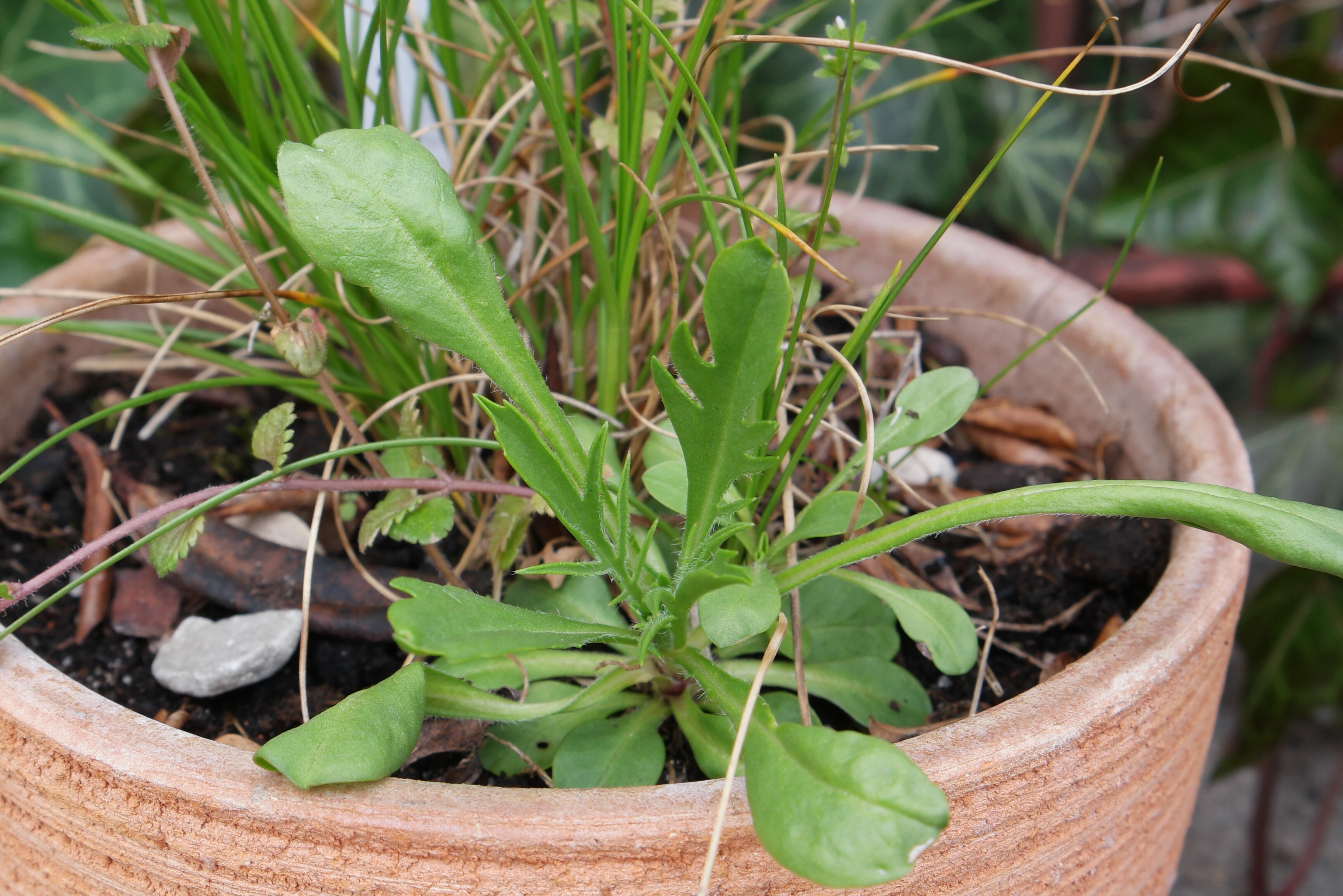 Scabiosa silenifolia leg P.Cikovac in horto Cikovac from the subadriatic Dinaric alps August 6. 2016